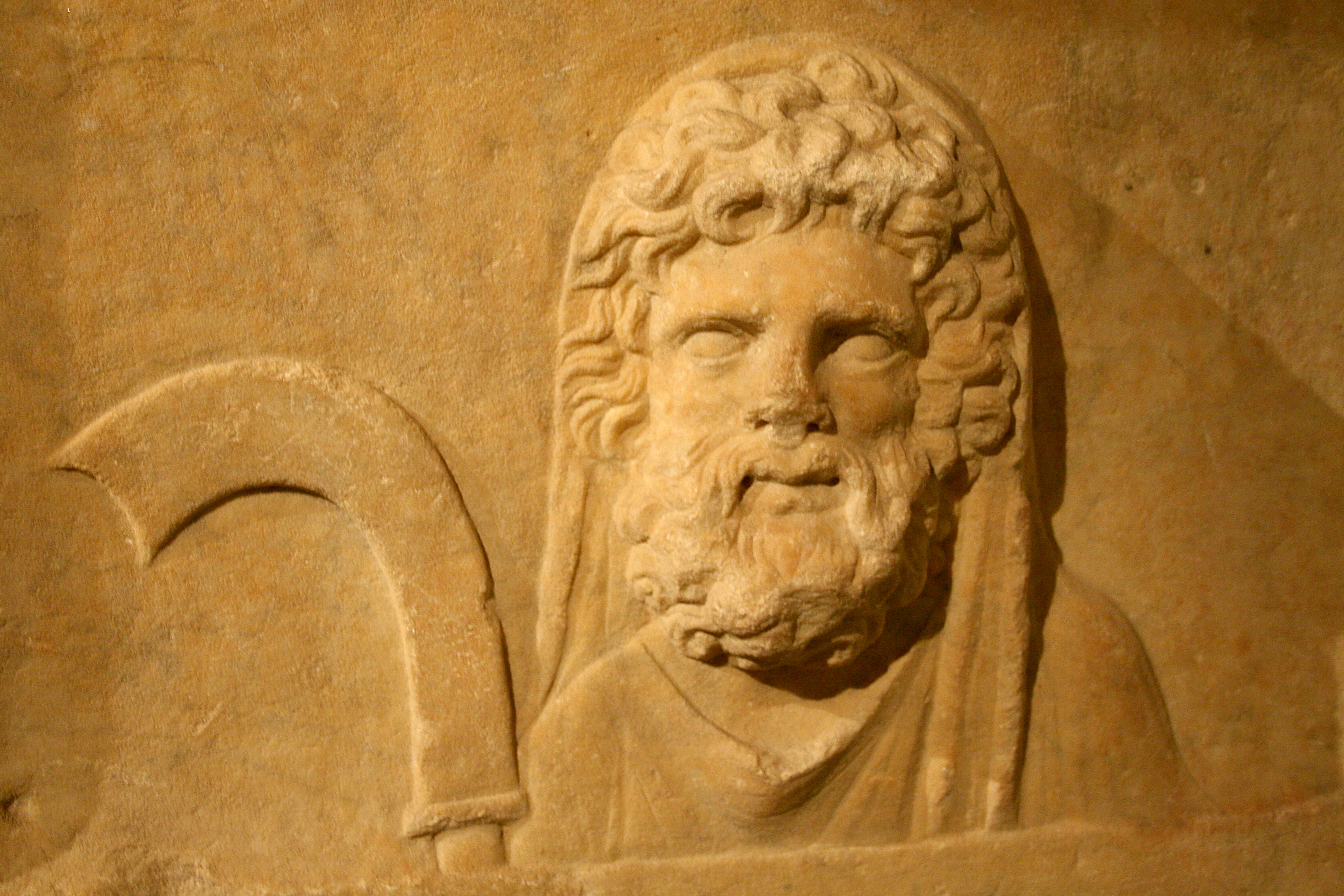 Detail of the right side of the altar dedicated to the god of Malakbel and gods of Palmyra decorated with a bas-relief depicting the god Saturnus with a scythe (Roman artwork).